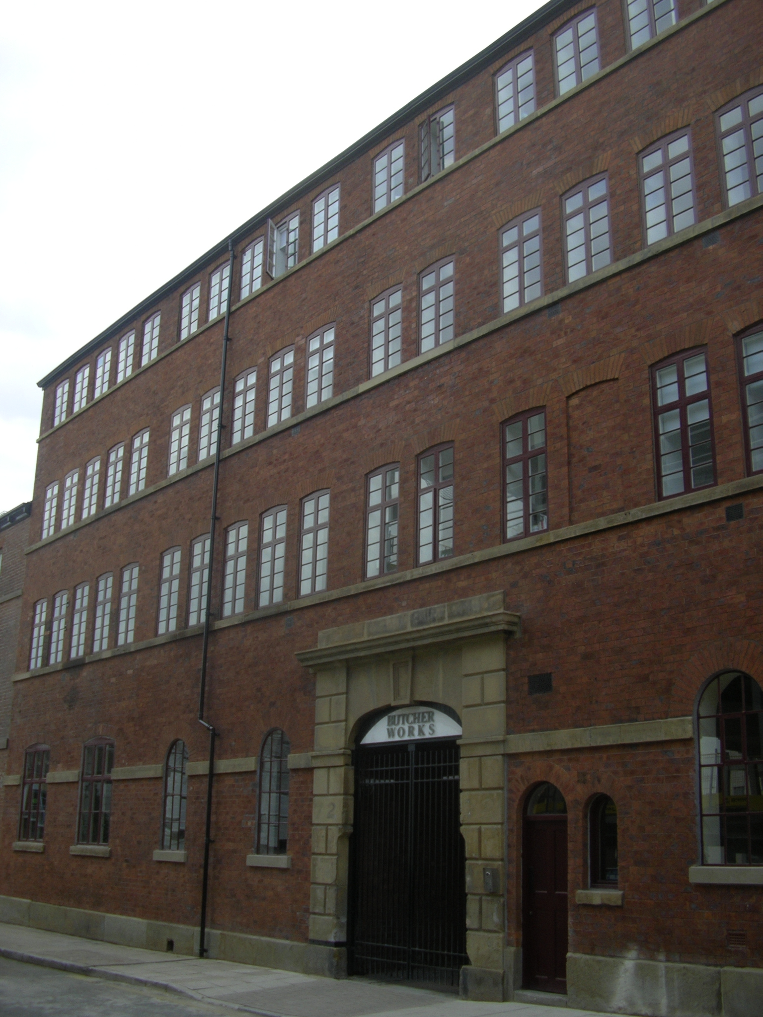 Main frontage of Butchers Wheel in Sheffield, following restoration.